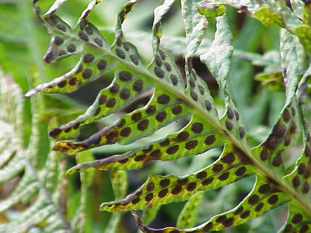 Species: Polypodium vulgare Family: Polypodiaceae Image No. 2